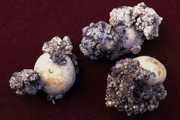 The warts vary from very small protuberances to large intricately branched systems